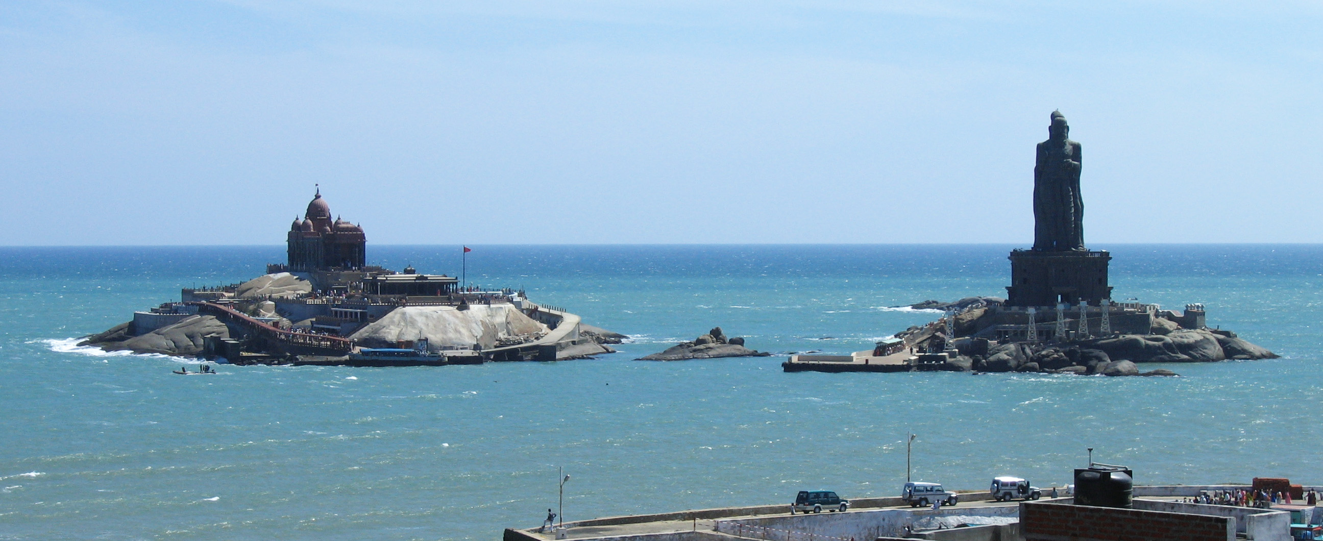 Kanyakumari views